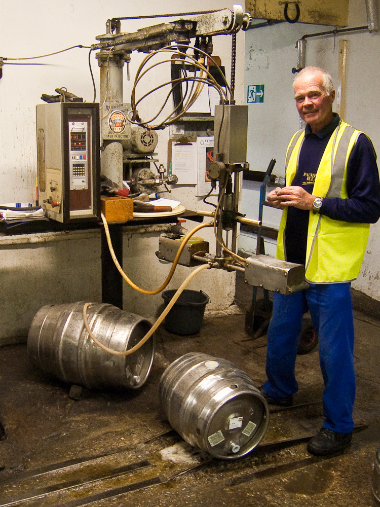 Topping up the barrel with finings. Finings are substances that are usually added at or near the completion of the processing of brewing wine, beer and various nonalcoholic juice beverages. Their purpose is for removal of organic compounds; to either improve clarity or adjust flavor/aroma.